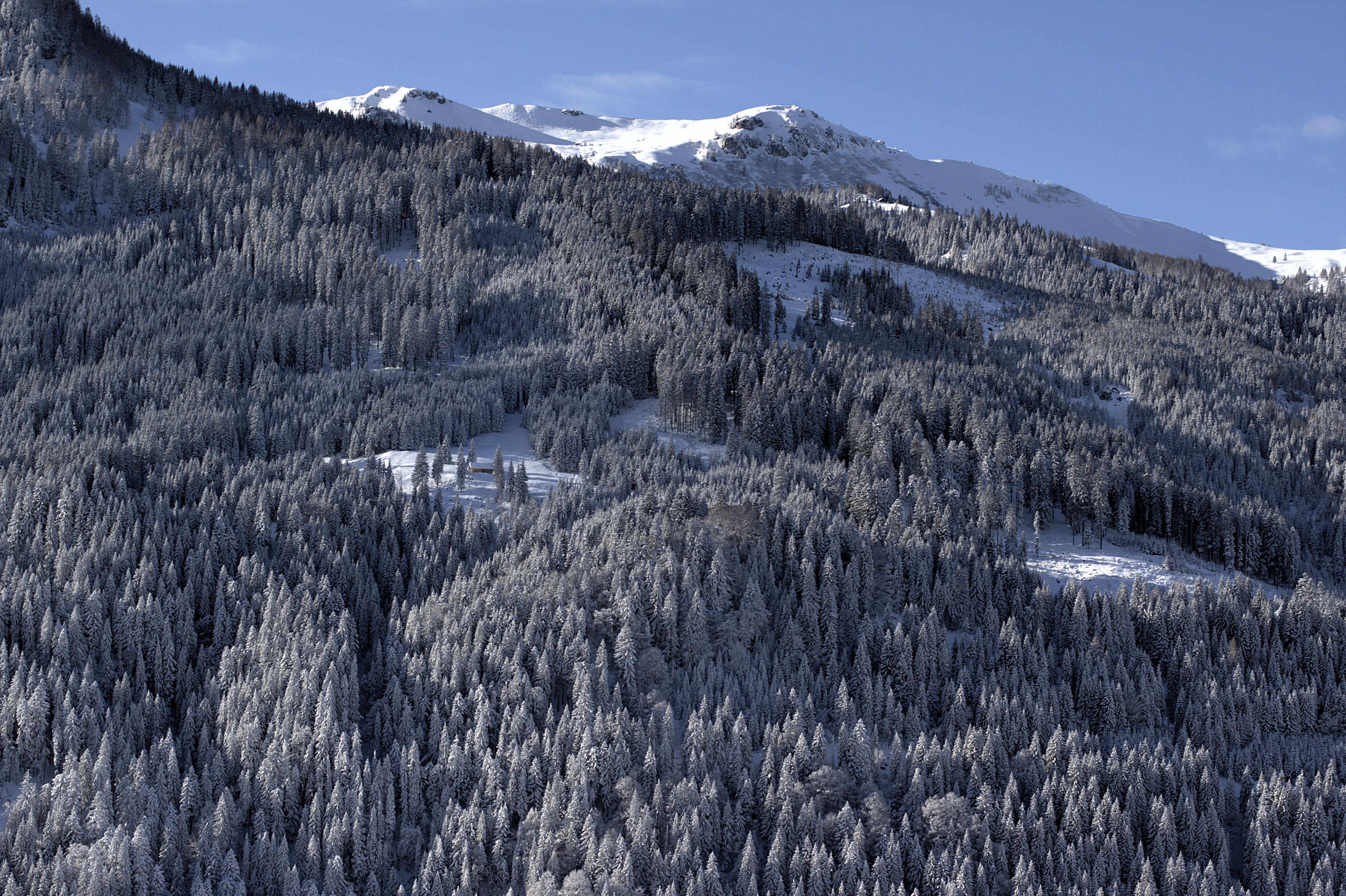 Austria, Salzburg, Kleinarl, Winterwonderland